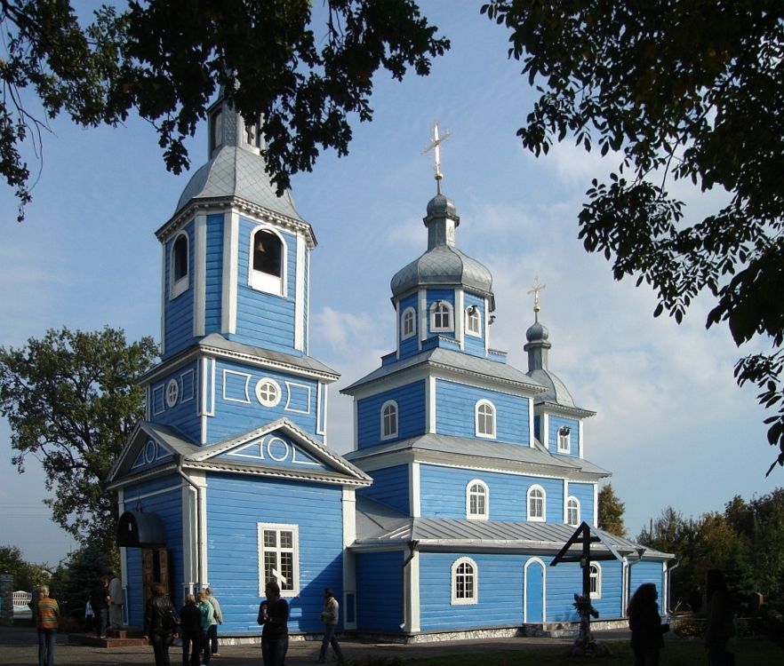 Church of Saint Michail (Slutsk, Belarus)